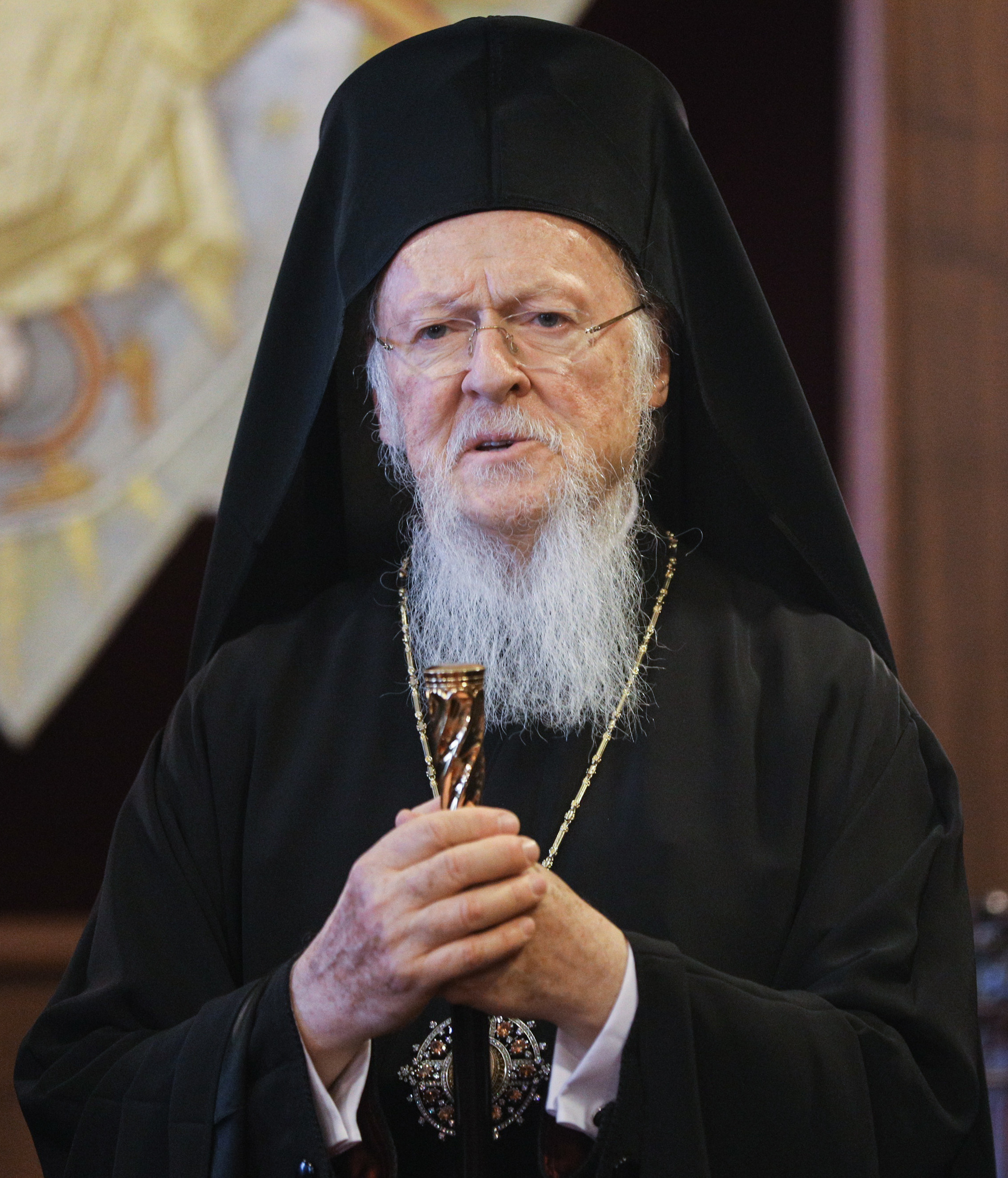 Ecumenical Patriarch Bartholomew I